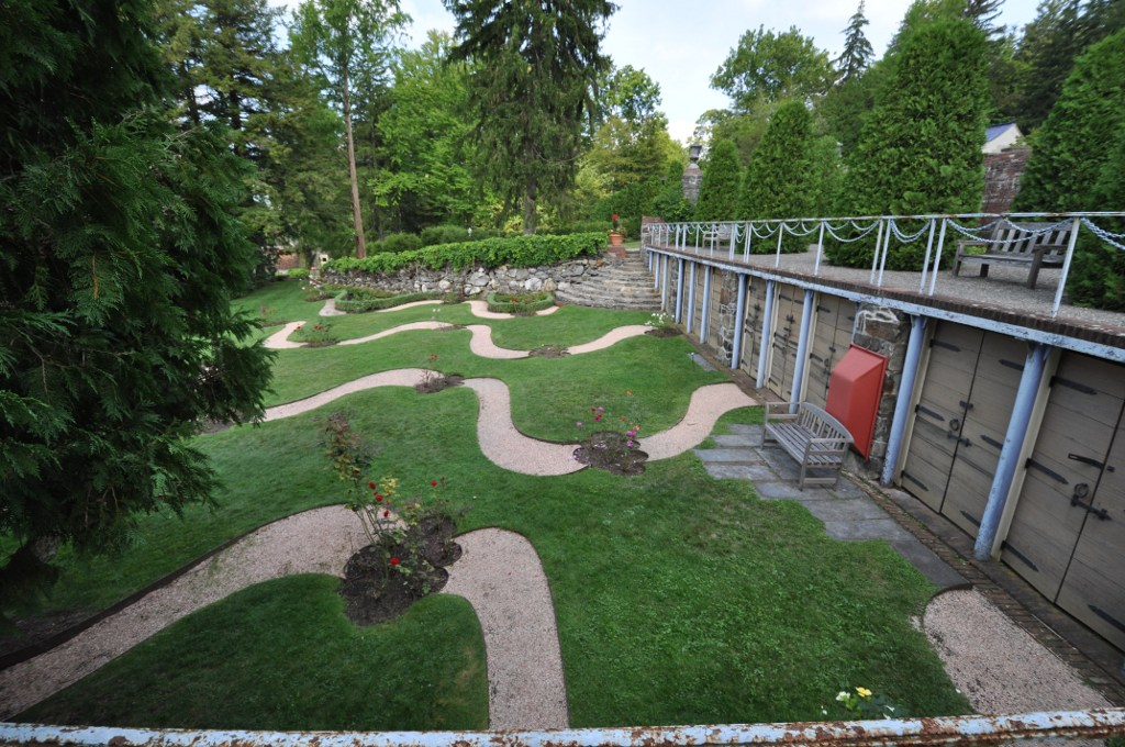 Naumkeag estate, Stockbridge, MA. The rose garden and tool sheds.